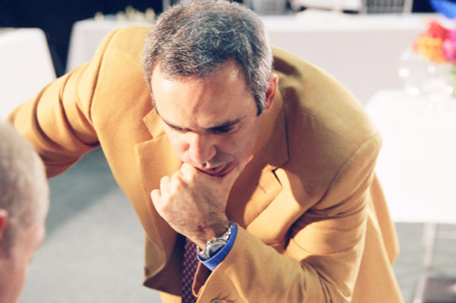 Garry Kasparov